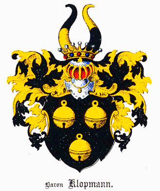 Coat of arms of Klopmann